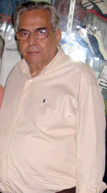 Eurico Miranda, president of Vasco da Gama.